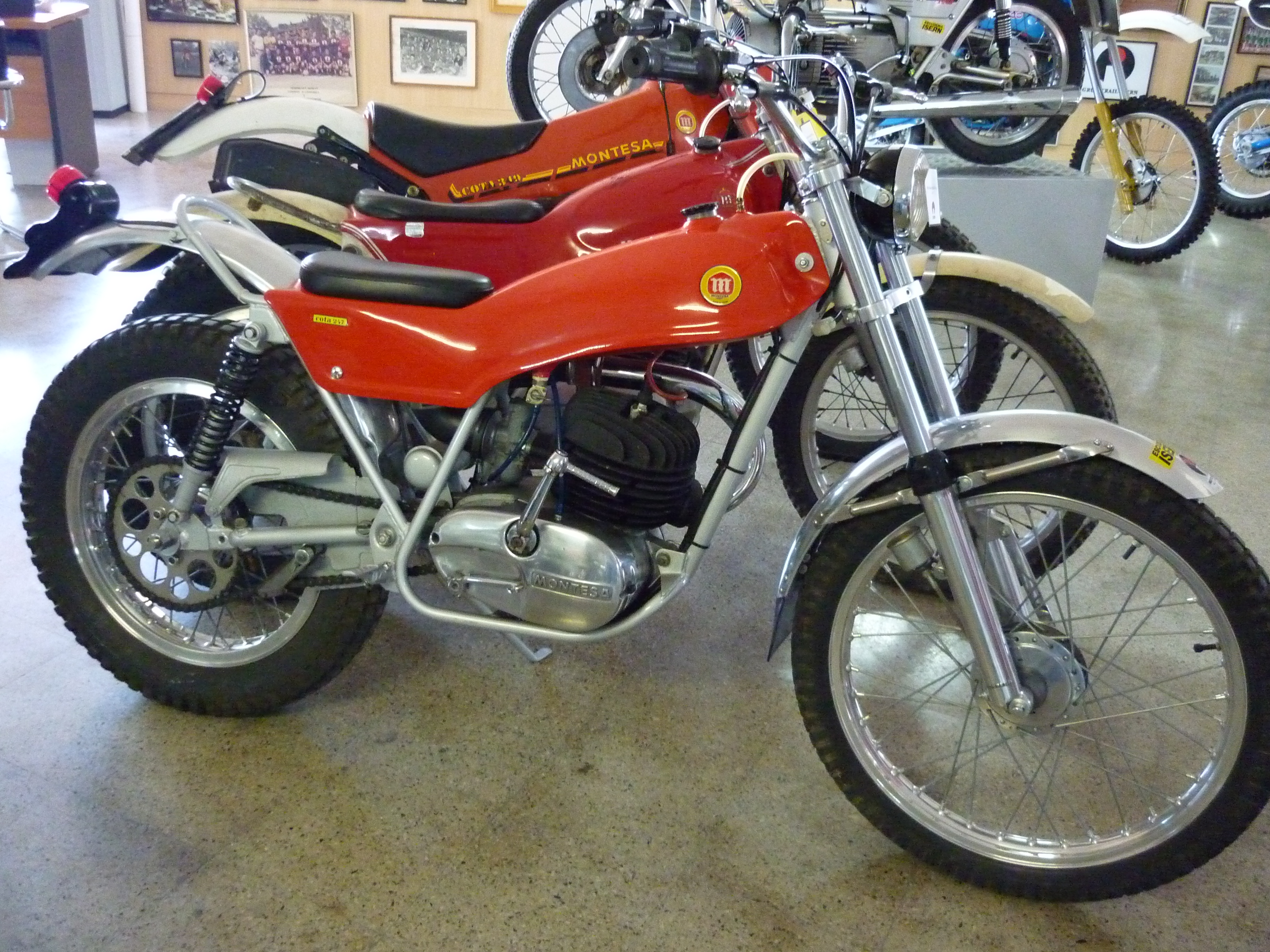 Montesa Cota 247, 247.69 cc (1972).Isern Motorcycle Museum, Mollet del Vallès (Catalonia).